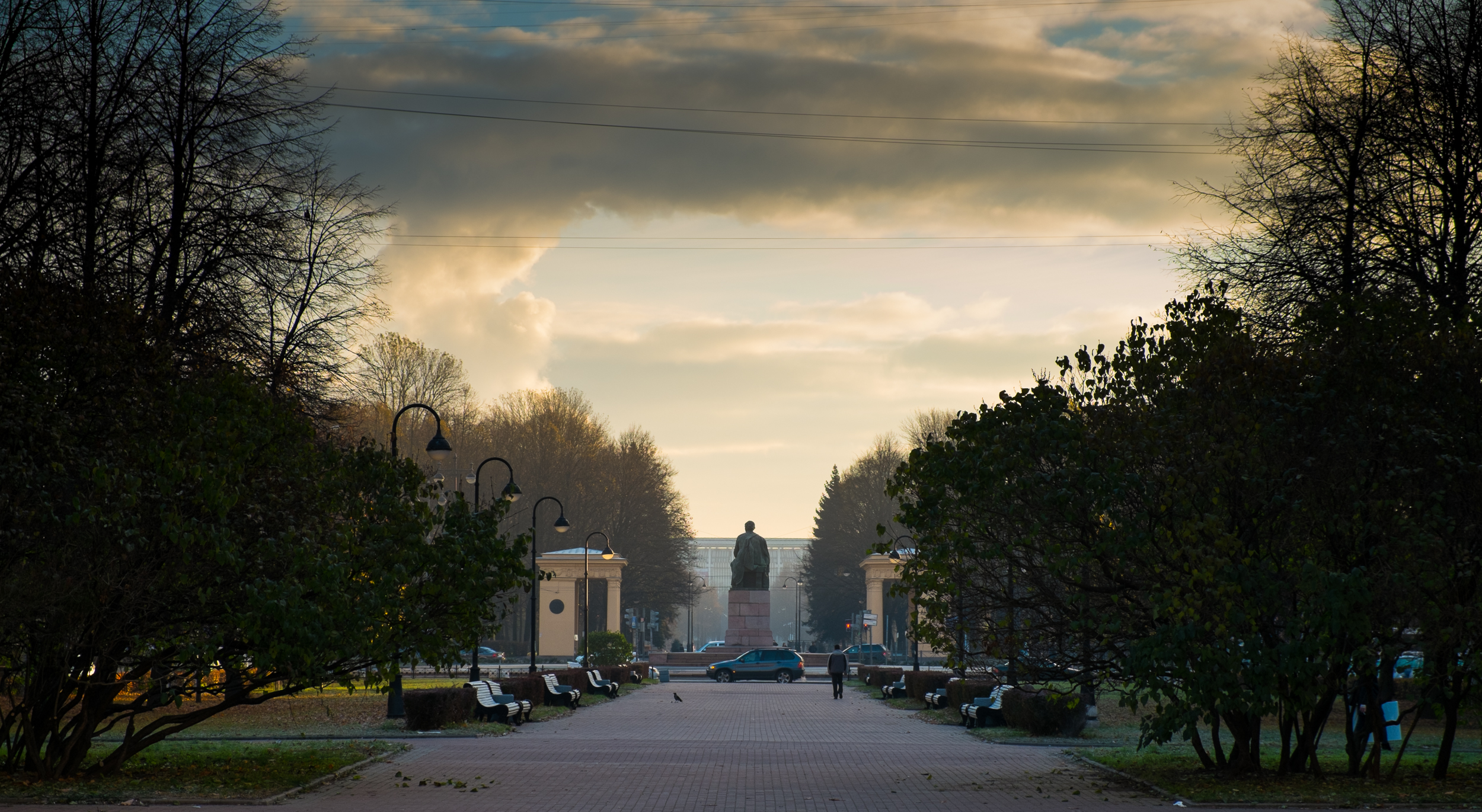 Chernyshevsky square, Saint Petersburg, Russia